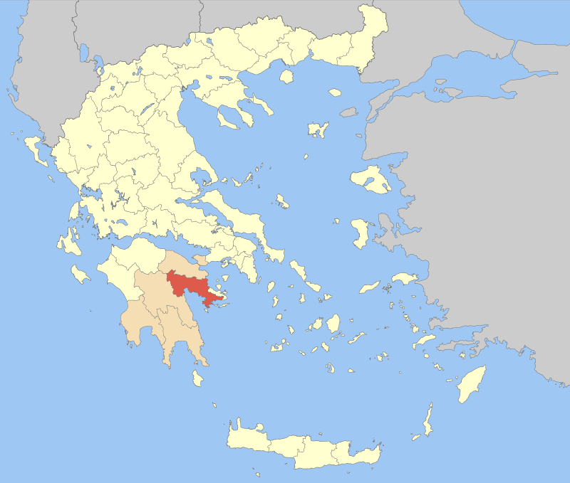 Locator map of Argolis prefecture (Νομός Αργολίδας) in Greece